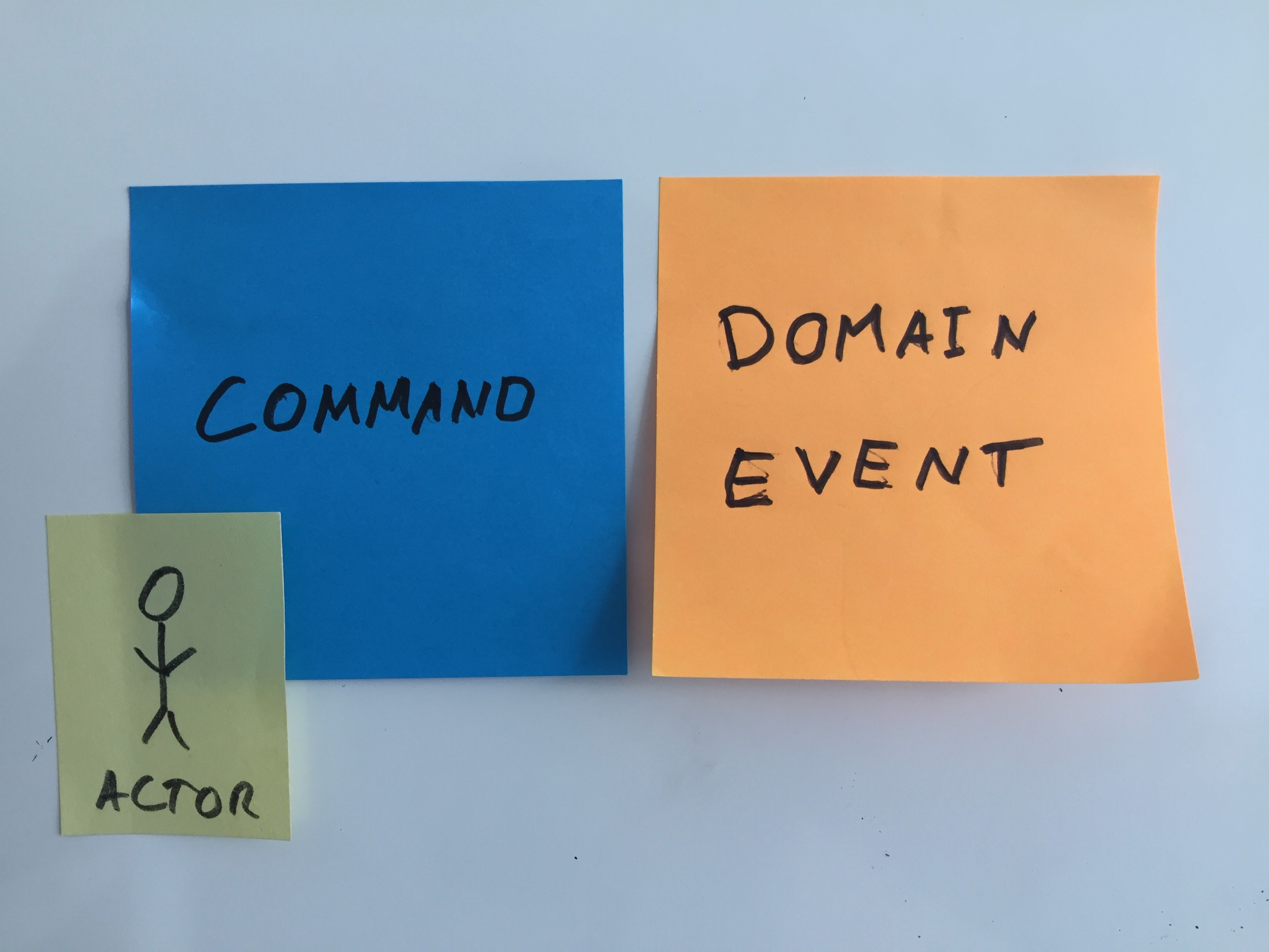 An actor and a command with the domain event it caused